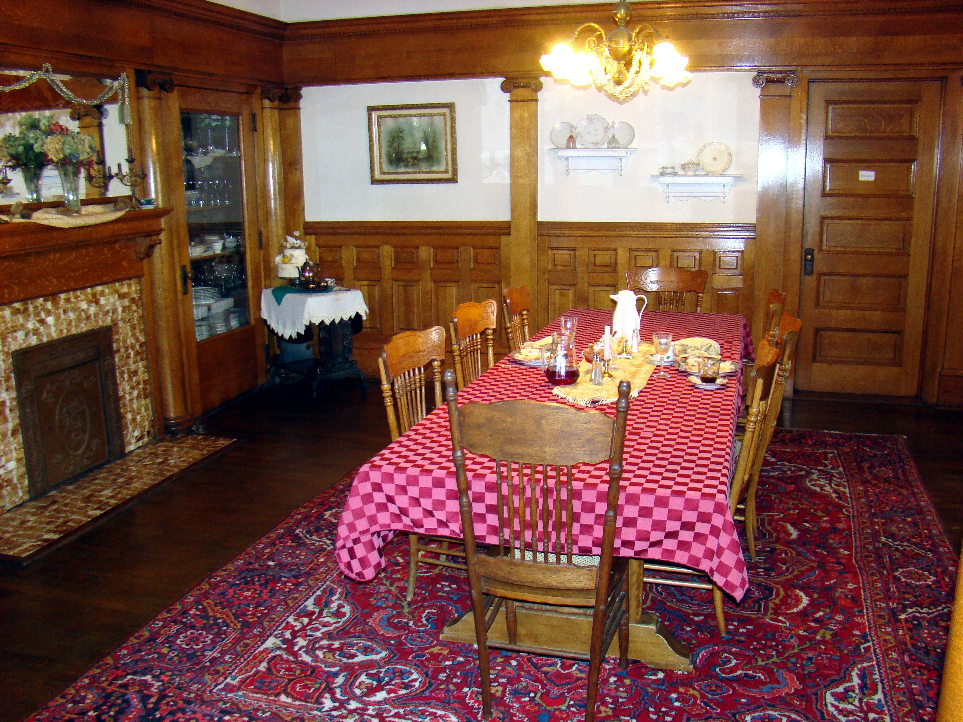 Dining room of The Simmons-Bond House, located in Toccoa, Georgia. The house was constructed by architect Levi Prater for lumberman James B. Simmons in 1903. The mansion is now a Victorian inn.